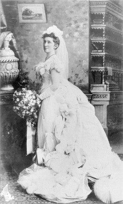 This is a photograph of Margaret Forrest (1844–1929), later Lady Forrest, wearing a dress appropriate for attending the British Court with the prescribed Prince of Wales plumes in the hair, formal gloves, veil and bouquet, low-cut evening bodice and long train, but identified as her 1876 wedding (debatable) photograph.